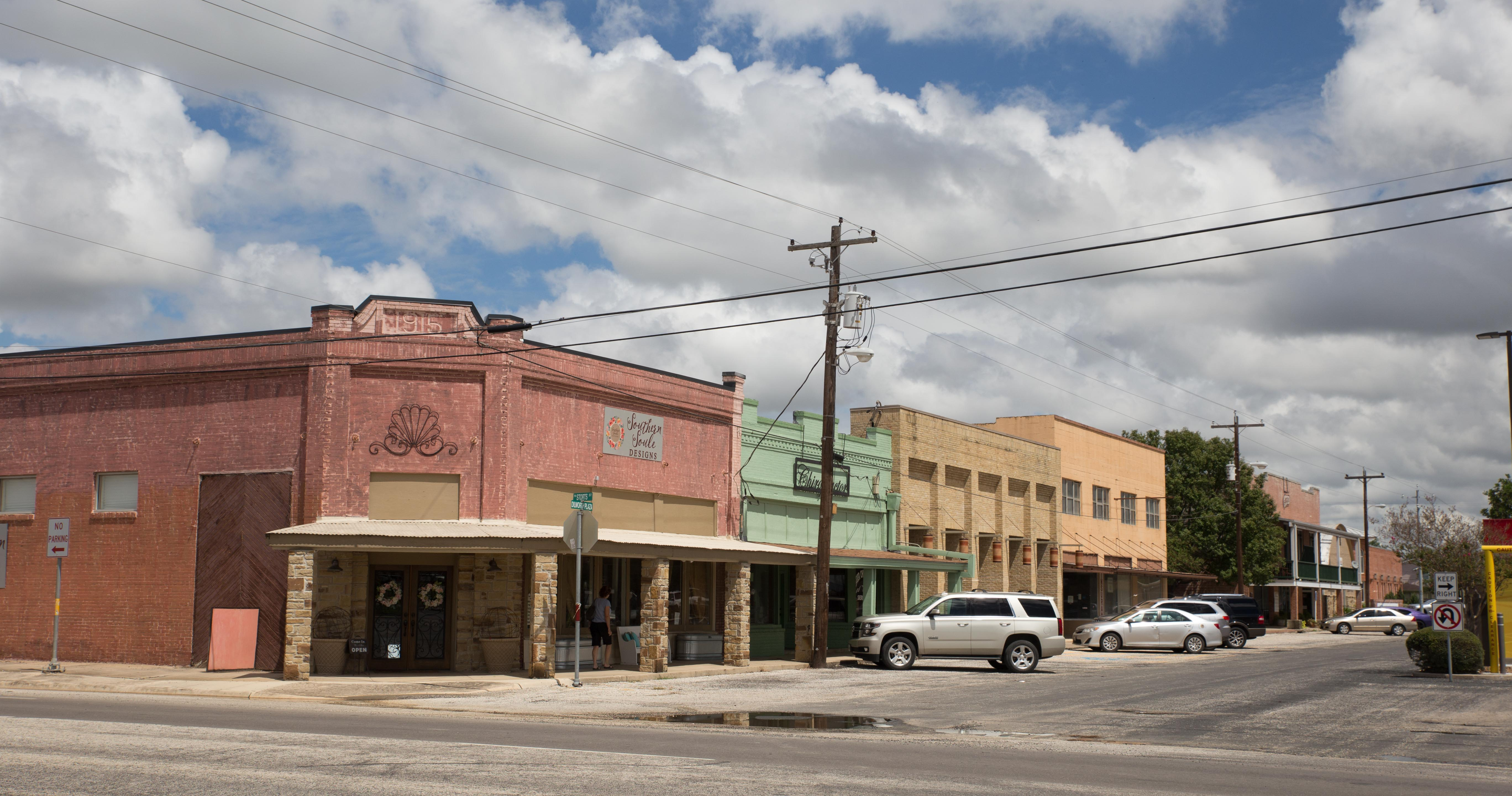 The town of Poth, Texas